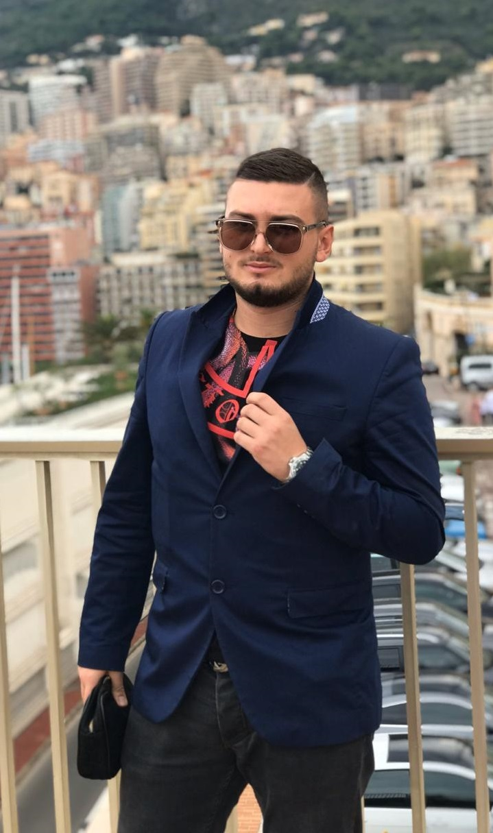 Tomas Kuçi